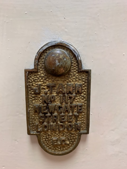 Lock on the strong room door at Imperial Airways site at Croydon Airport.